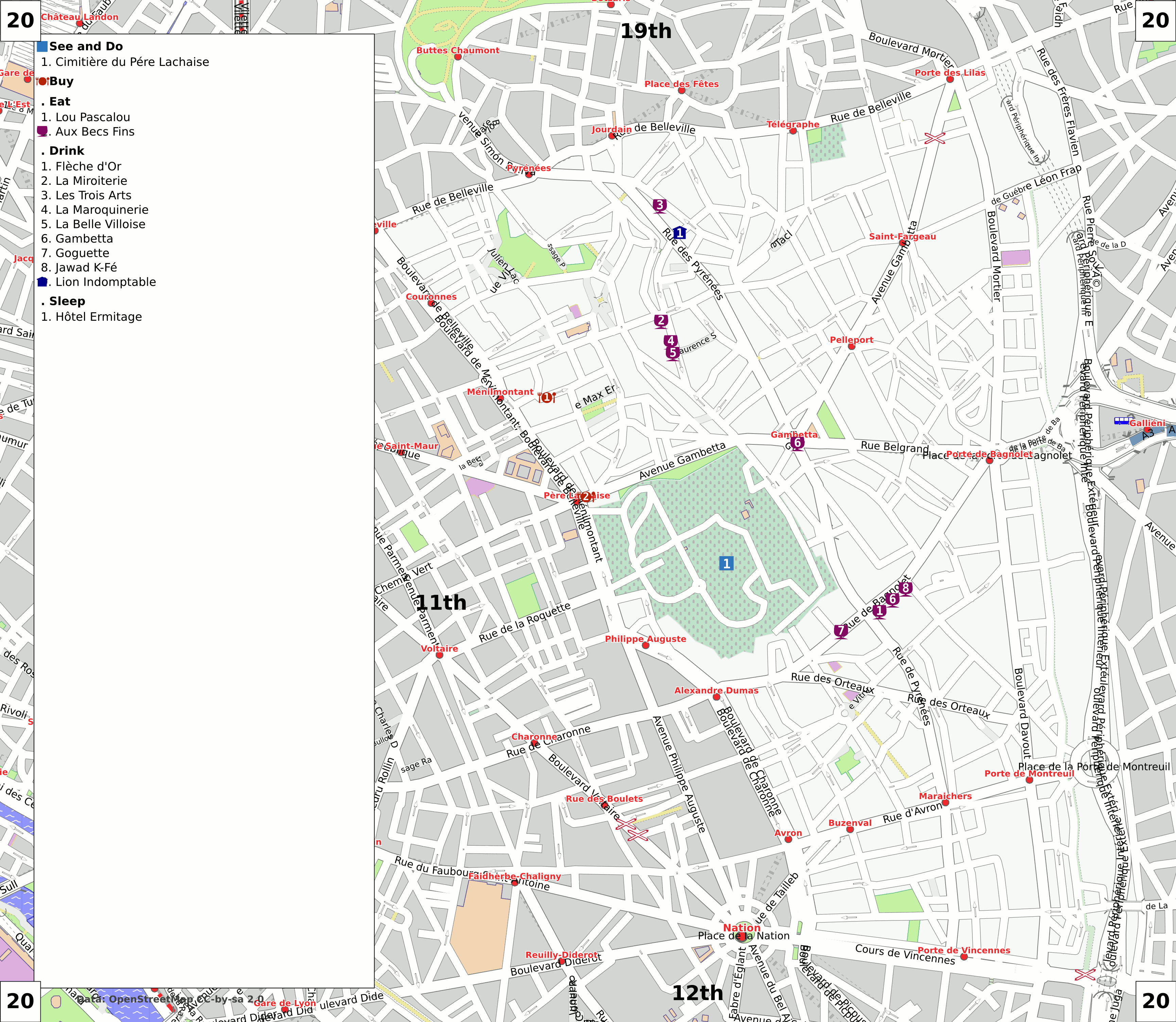 Map of the 20st arrondissement of Paris.